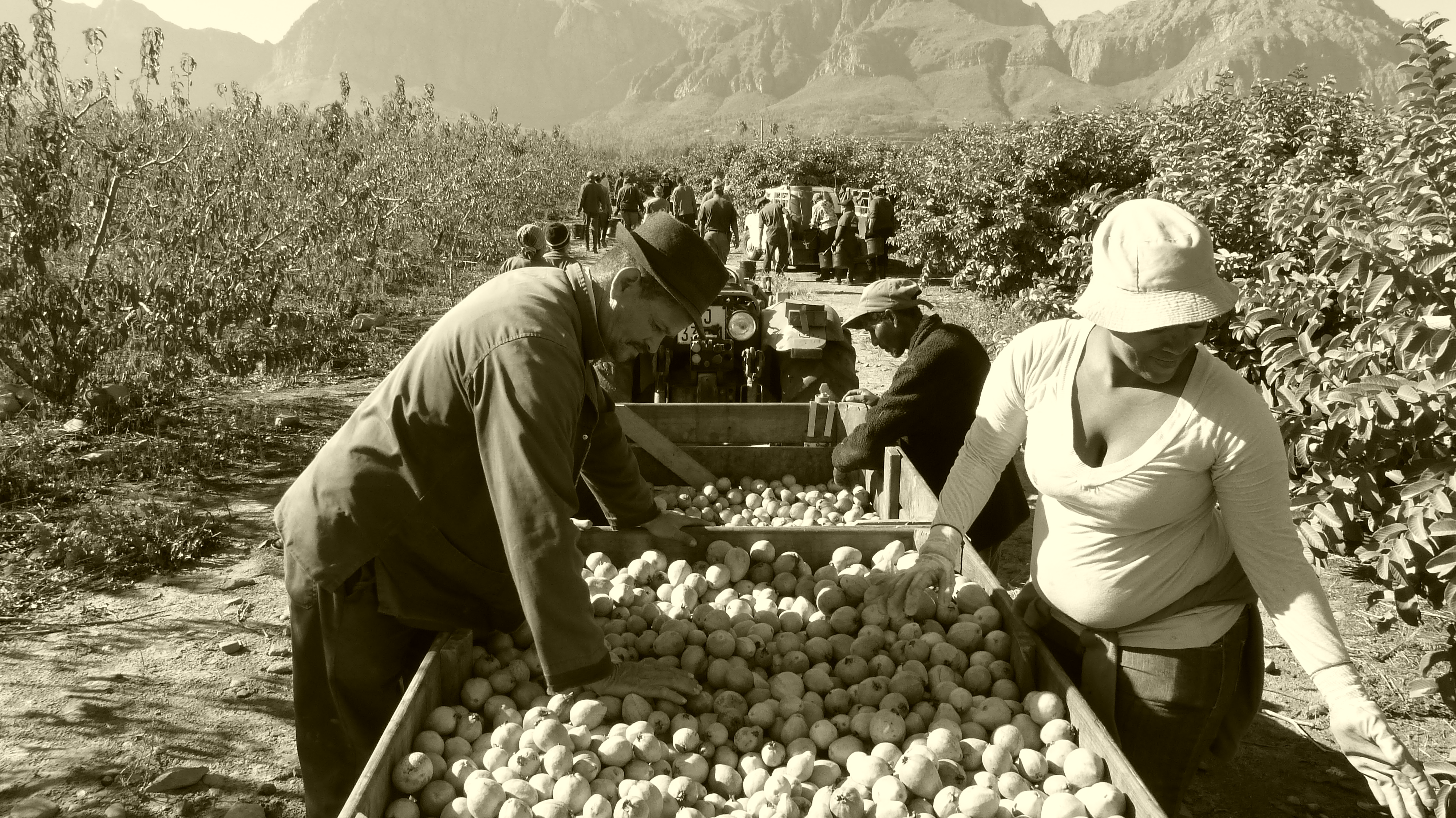 Guava Pickers on a farm in the Paarl valley This is an image of "African people at work" from South Africa